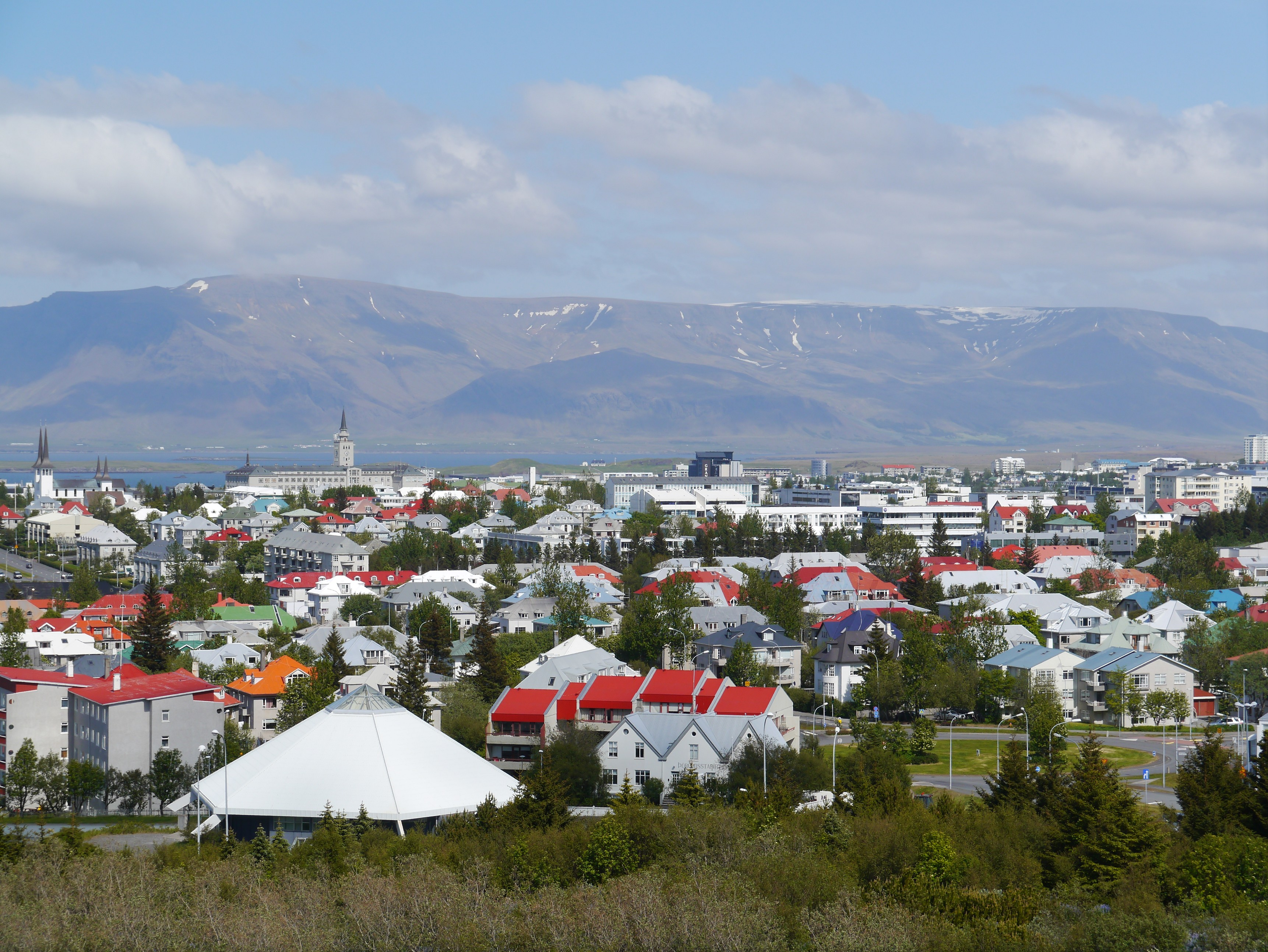 View from Perlan, Reykjavík